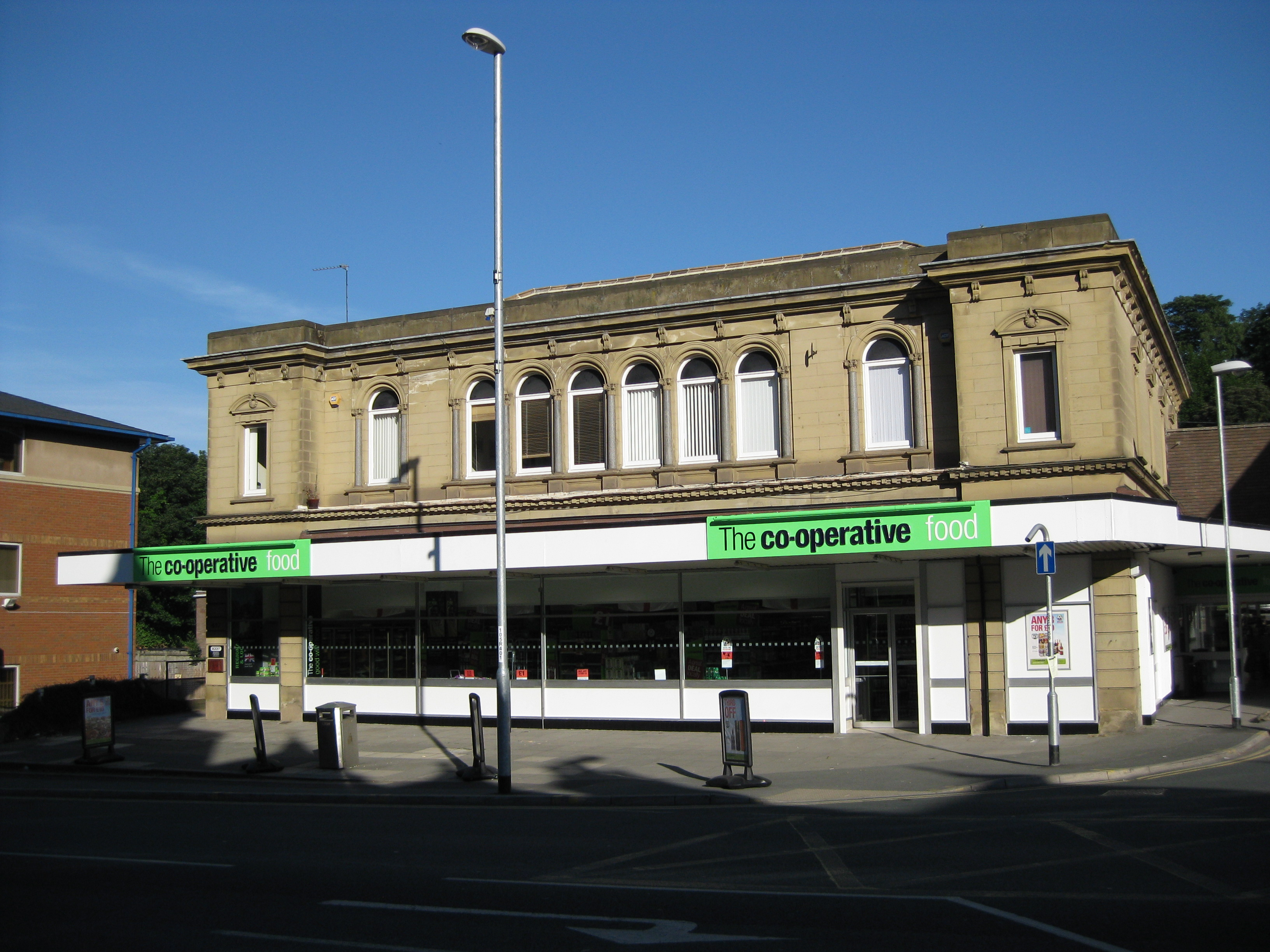 Co-operative food store, Roundhay Road Oakwood, shortly after conversion from Somerfield (and previously Safeway). Date of original building unknown.